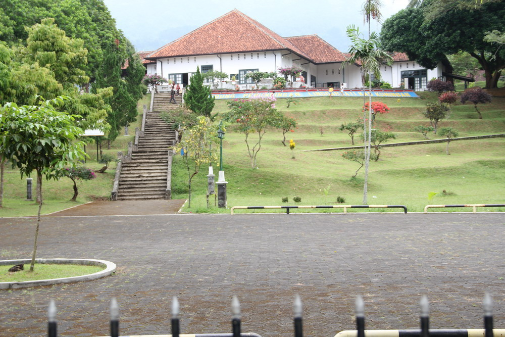 Building where the Linggajati Agreement was reached on 15 November 1946, located in Linggajati Village, Cilimus District, Kuningan Regency, West Java.